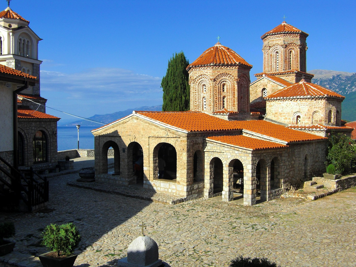 The monastery of Saint Naum is located on the southeast side of Lake Ohrid, in Macedonia. Its building is linked to the name of Saint Naum, the closest associate of Saint Clement of Ohrid. Records about the life and work of Saint Naum can be found in three literature works dedicated to his life and in the Historical Archives of Ohrid.